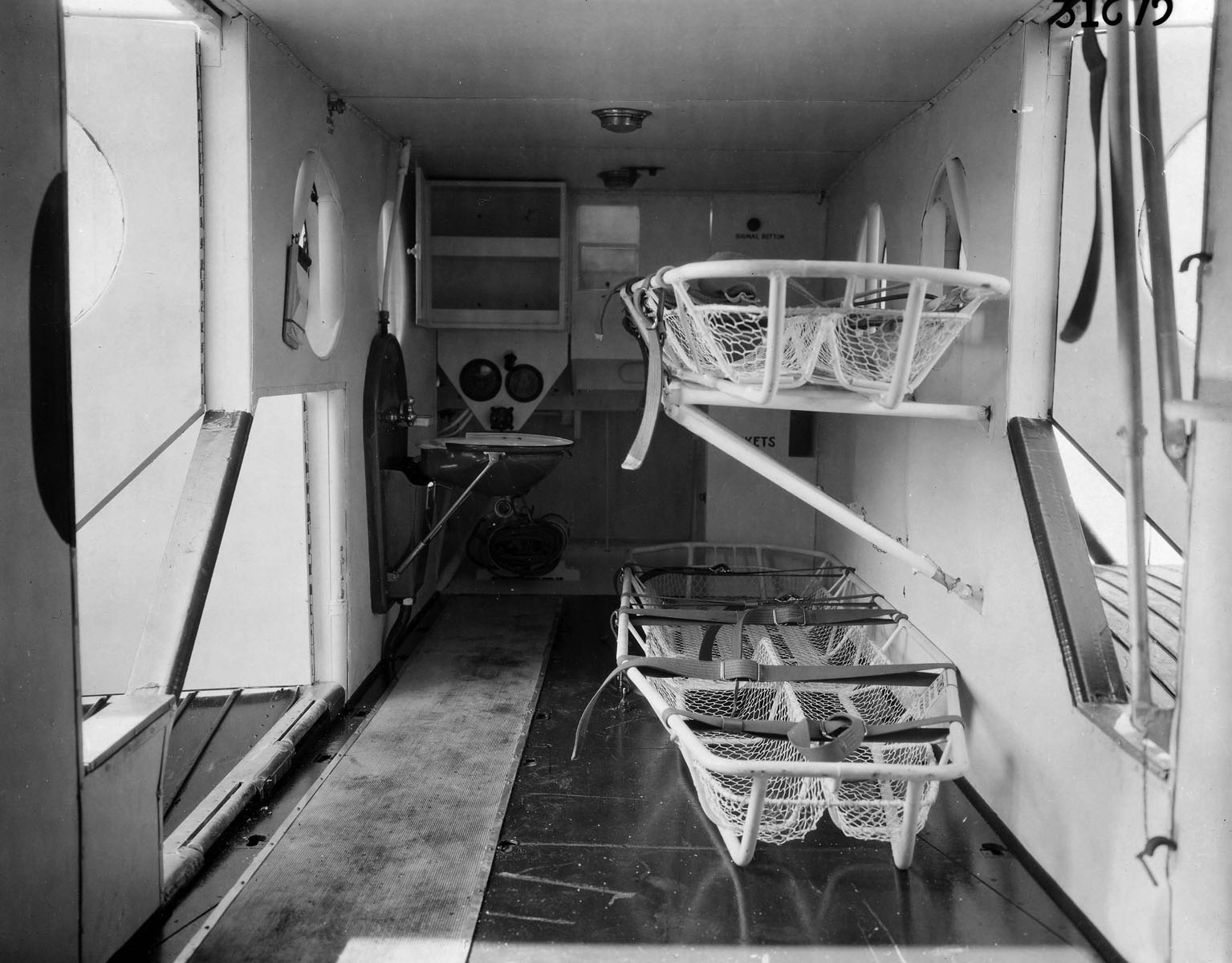 Douglas C-1 Air Ambulance, forward interior view. (U.S. Air Force photo)